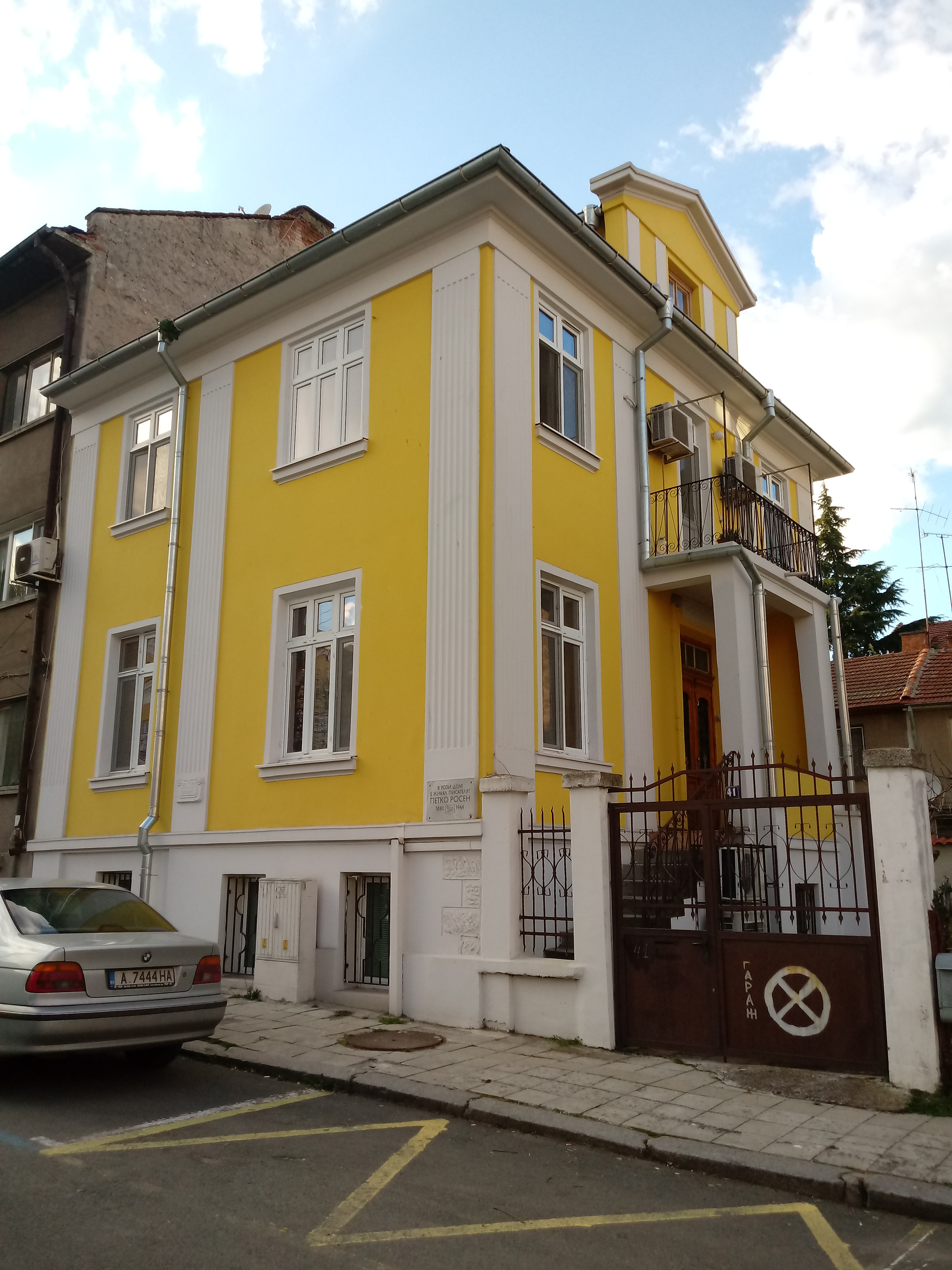 Petko Rosen home with memorial plaque, 41 Tsar Asen Str., Burgas